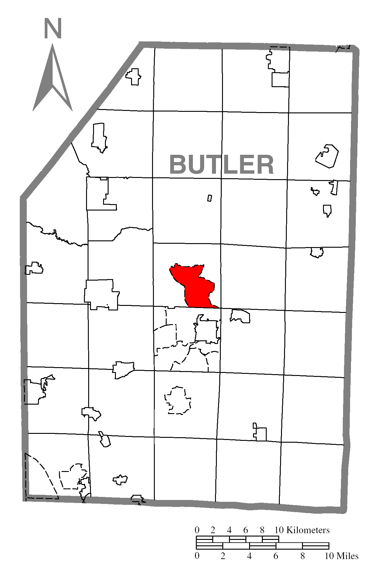 A map of Butler County showing Shanor-Northvue, Pennsylvania (alternate) highlighted on the map.